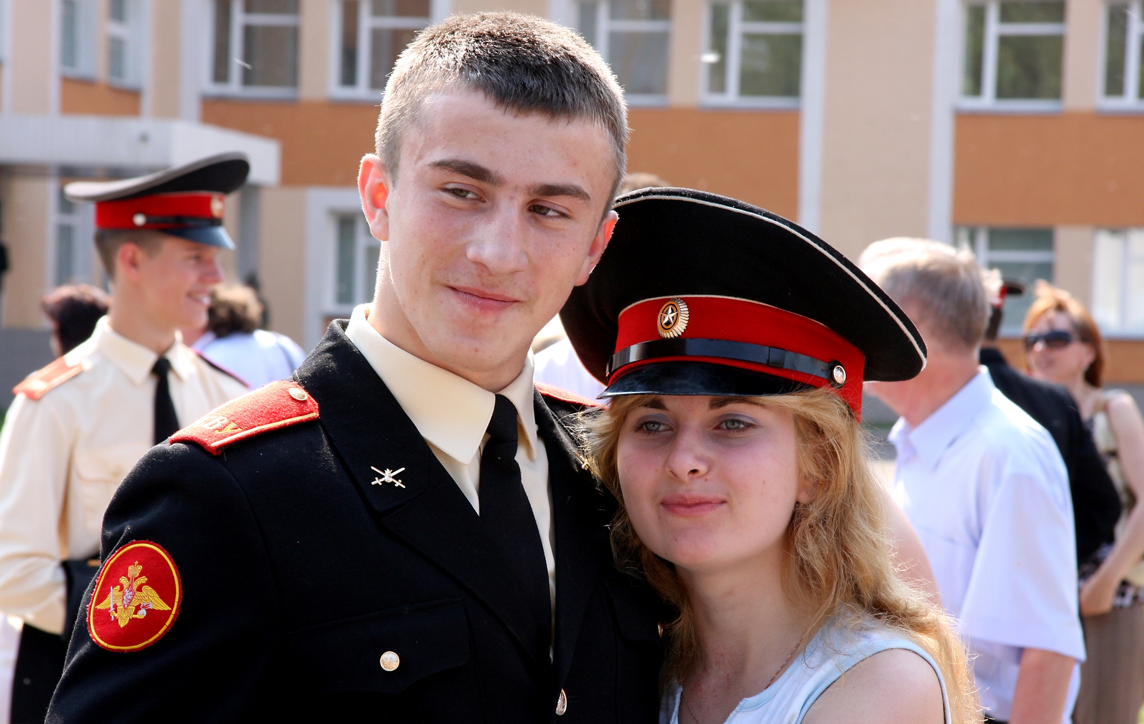 Graduation greetings from relatives and friends.